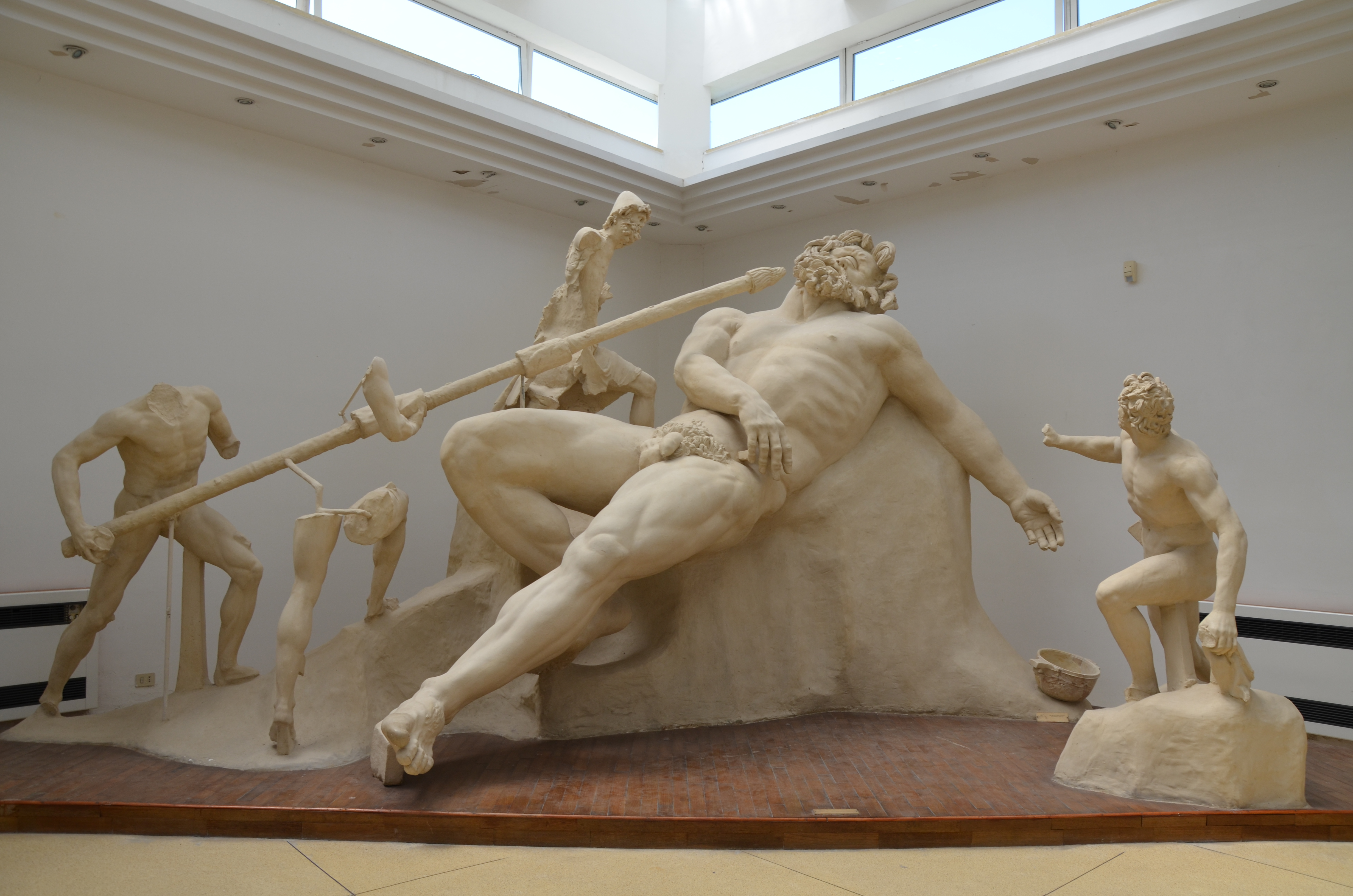 The Blinding of Polyphemus, cast reconstruction of the group, Sperlonga